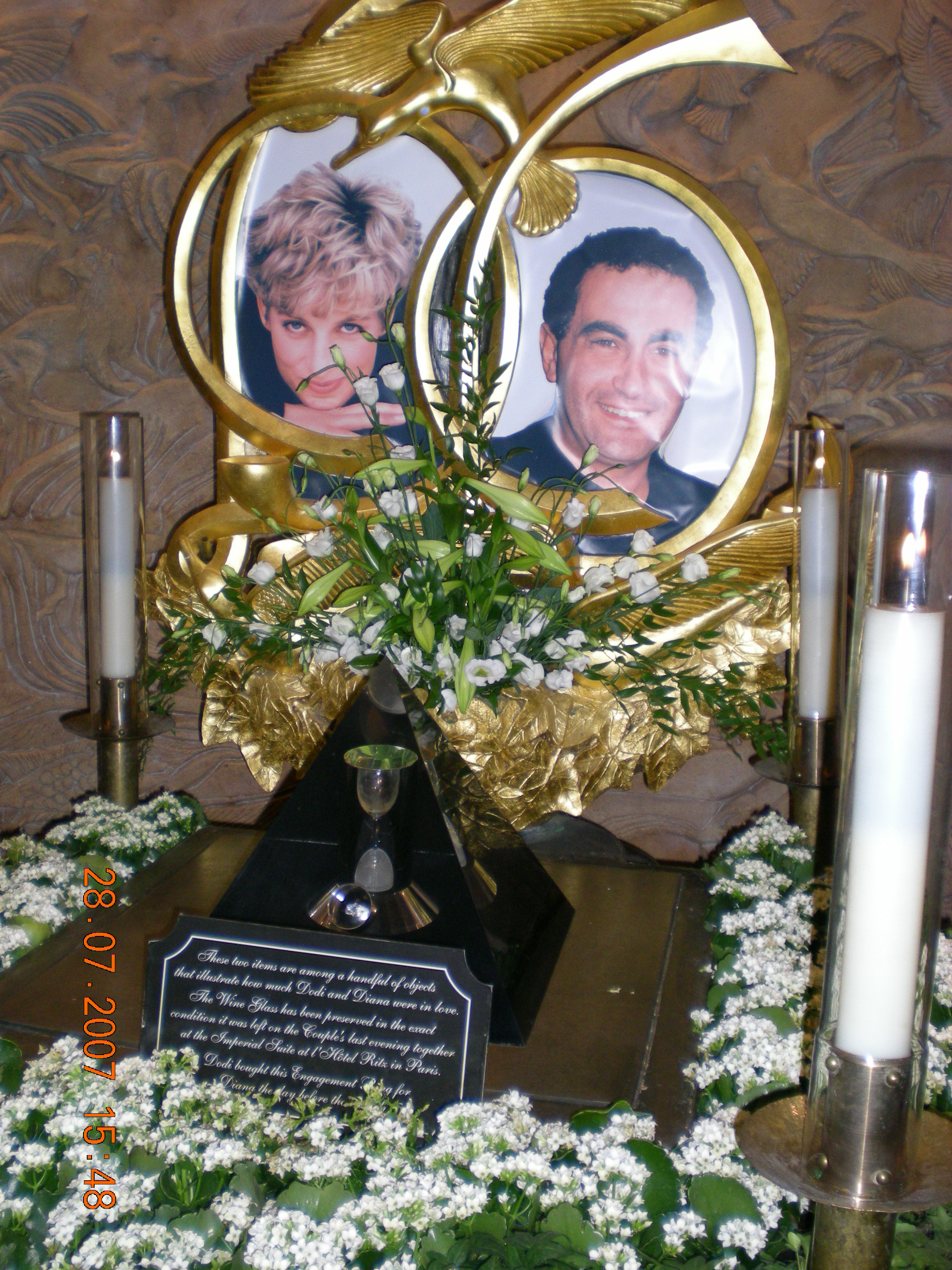 DoDi and Diana Memorial at Harrods, London